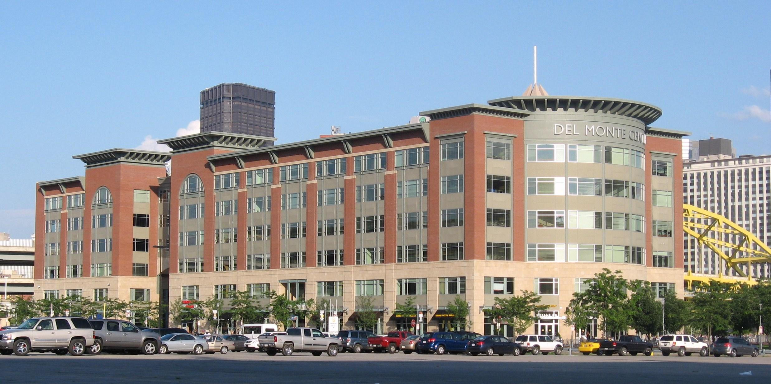 The Del Monte Building near Heinz Field in Pittsburgh.40°26′44″N 80°0′38.6″W / 40.44556°N 80.010722°W